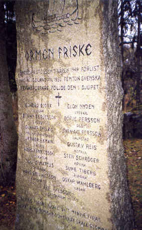 Ormen Friske Memorial, Stensund, Sweden